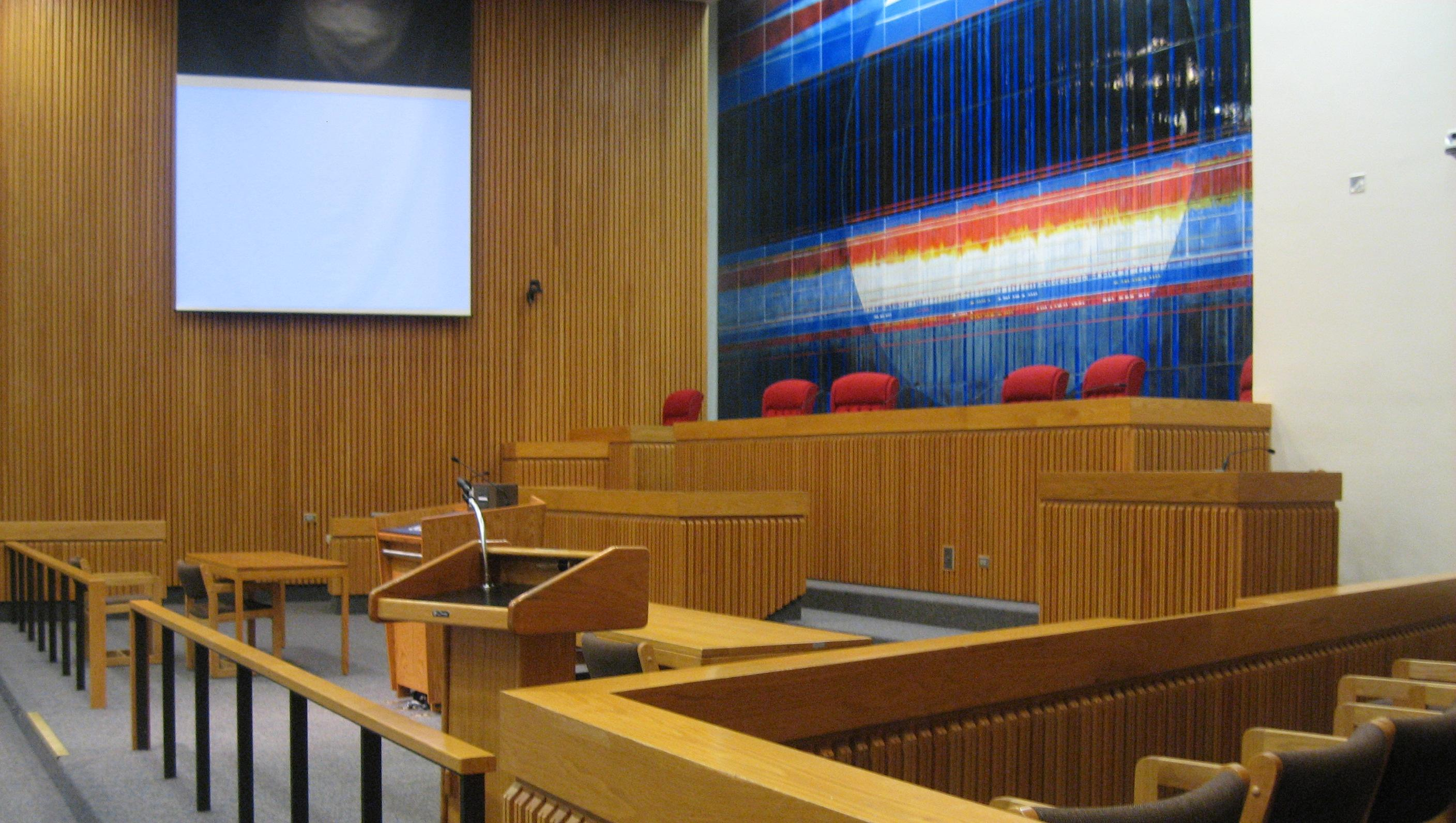 Teplitz Courtroom in the Barco Law Building of the University of Pittsburgh School of Law. A mural by Virgil Cantini appears in the background. 40°26′30.9″N 79°57′20.5″W / 40.441917°N 79.955694°W